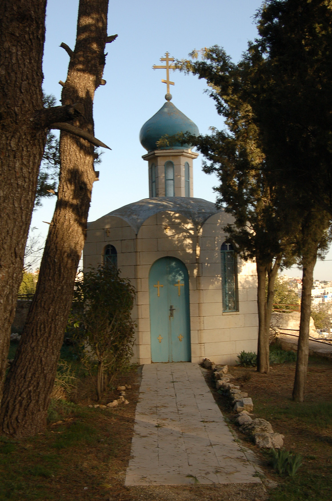 Abraham's Oak Russian Holy Trinity Monastery